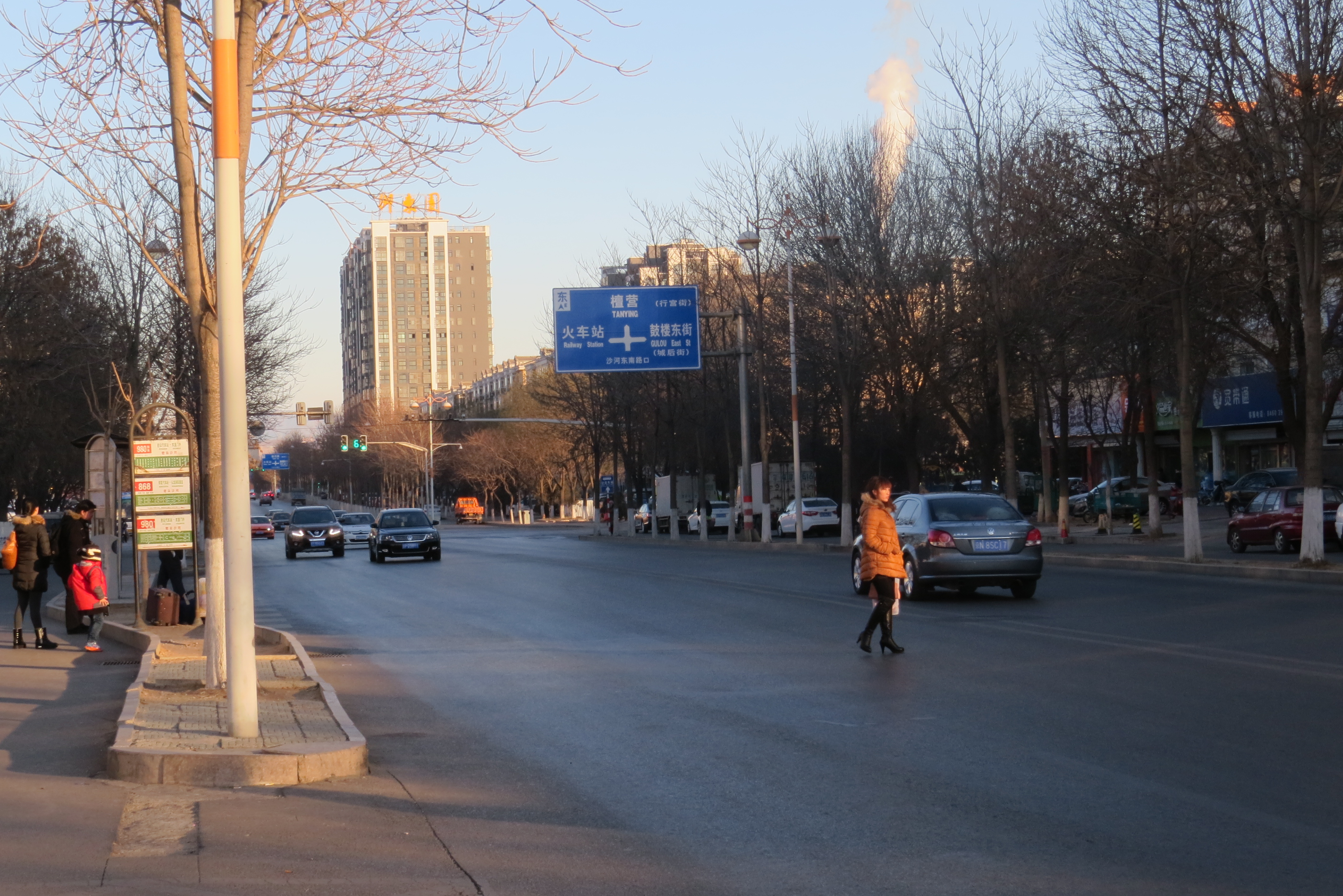 Yes, I'm heading for Miyun North Railway Station.